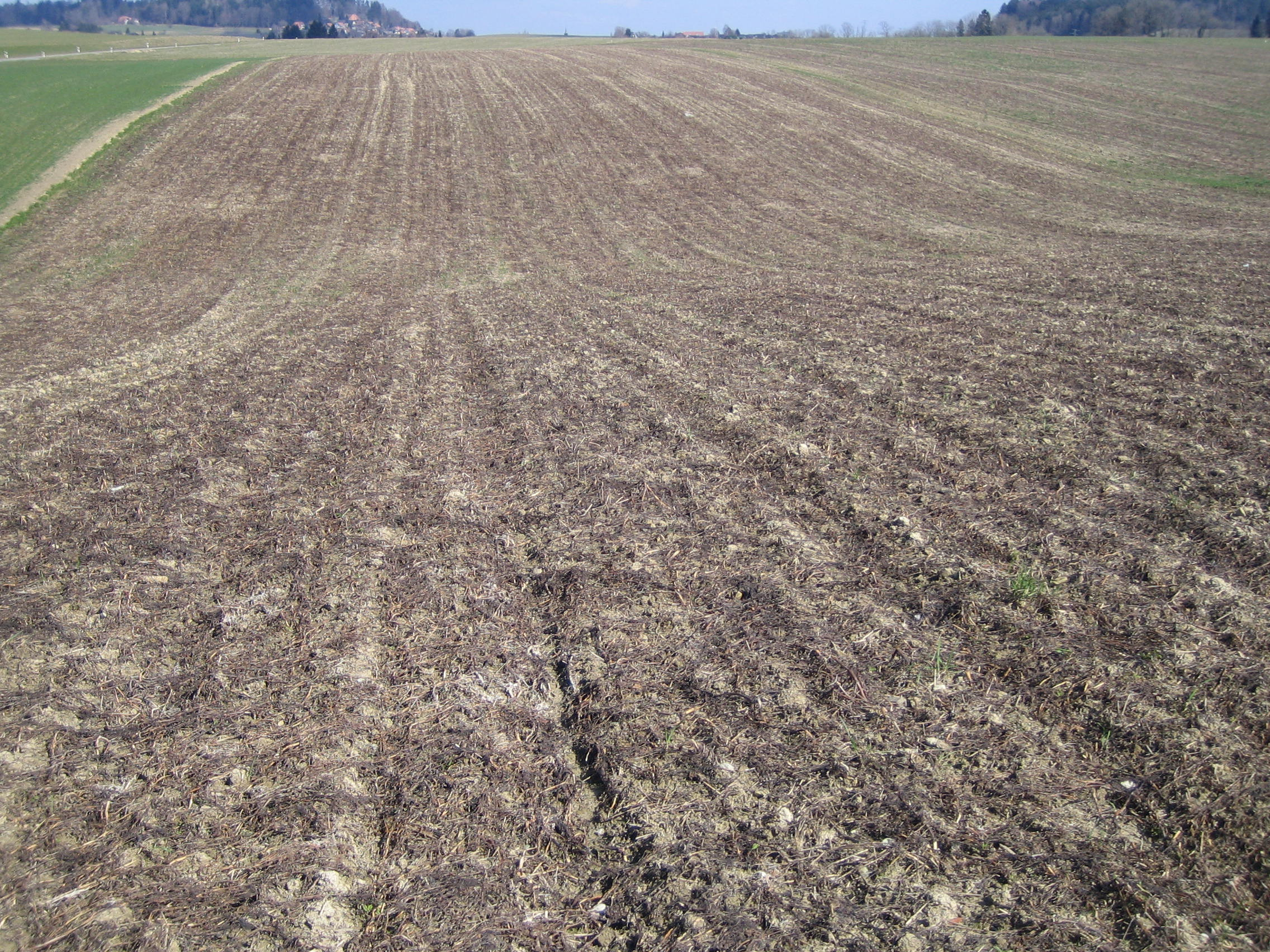 Cover crop, canton of Bern, Switzerland